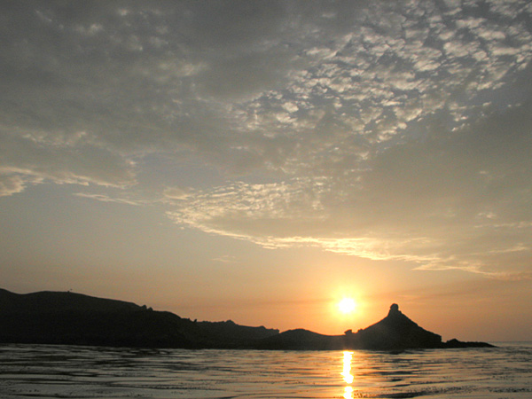 Sunrise at Pyramid Point, San Clemente Island, Channel Islands, California.